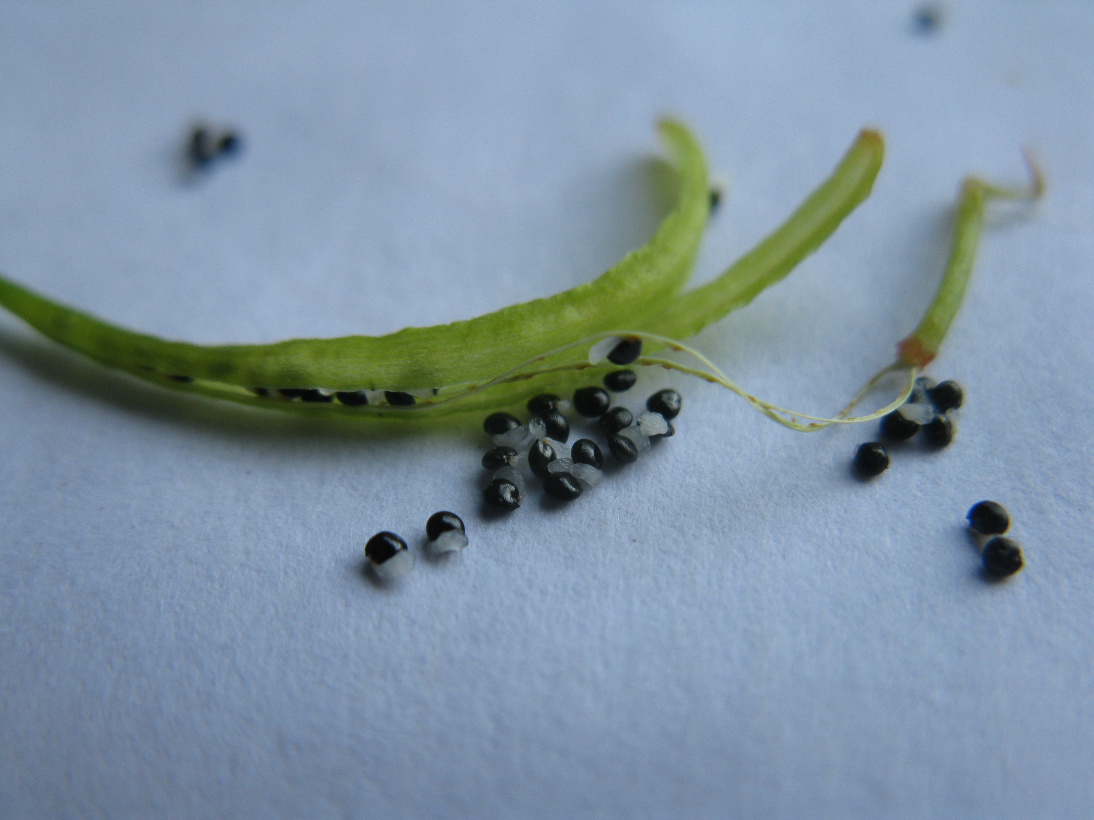 Ferny corydalis (Corydalis cheilanthifolia) pod from cleistogamous flower with seeds and whitish elaiosomes